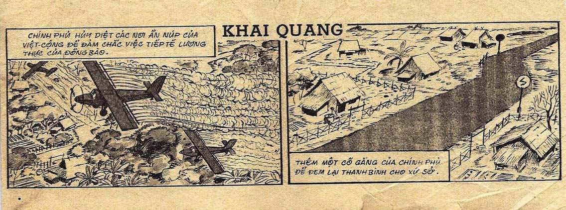 ARVN propaganda for agent orange 2